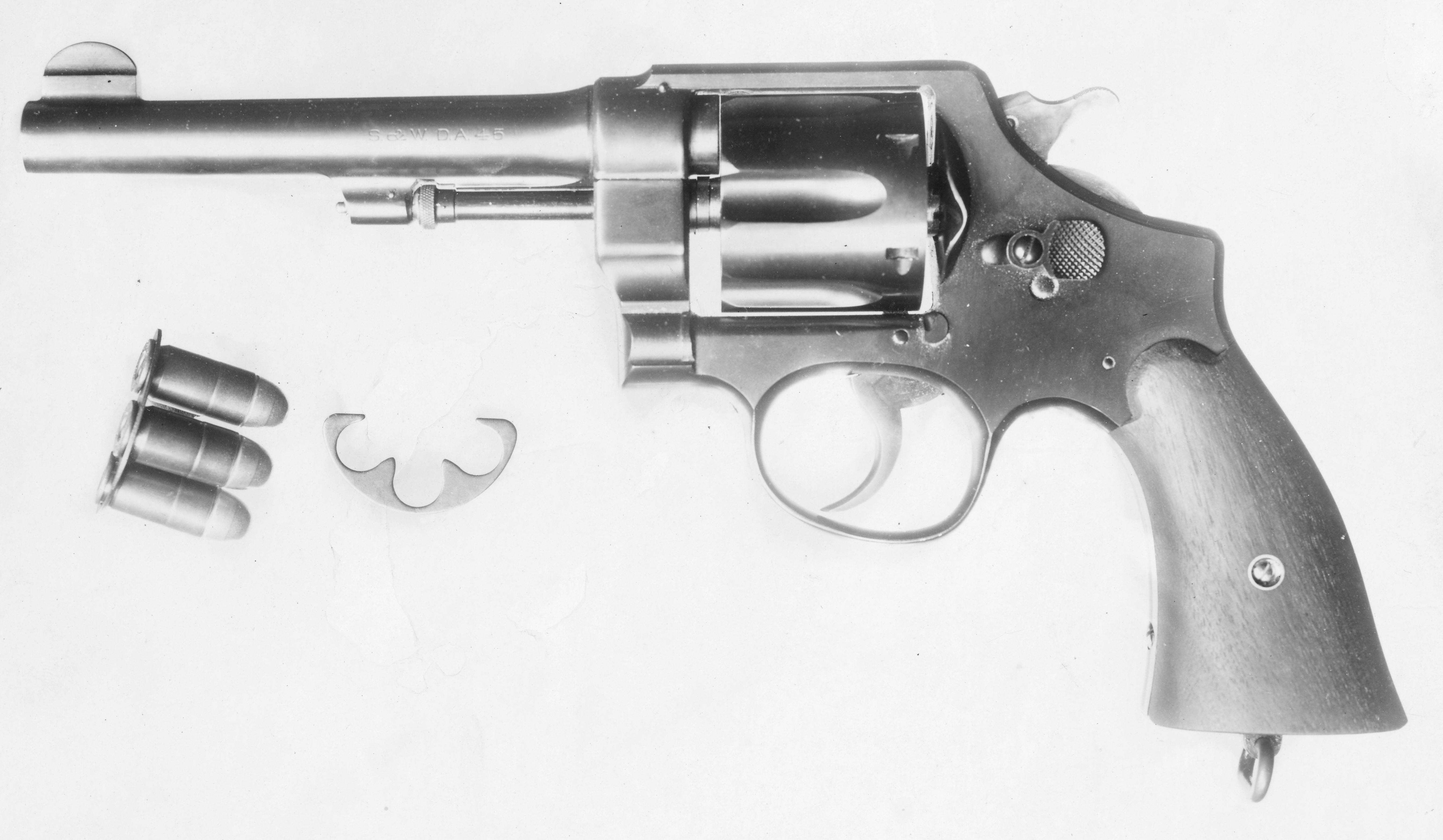 Smith & Wesson M1917 revolver with .45 ACP cartridges and moon clips.